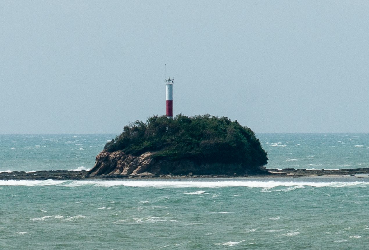 Kudat, Pulau Kalampunian; View from Tj. Simpang Mangayau (magnified version of File:Kudat_Sabah_PulauKalampunian.jpg)